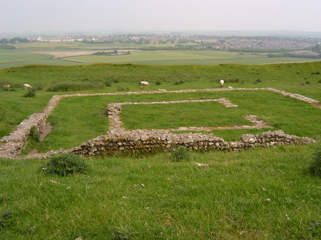 Atlas of Hillforts 3598 Roman Temple on summit of Maiden Castle, Dorset, England